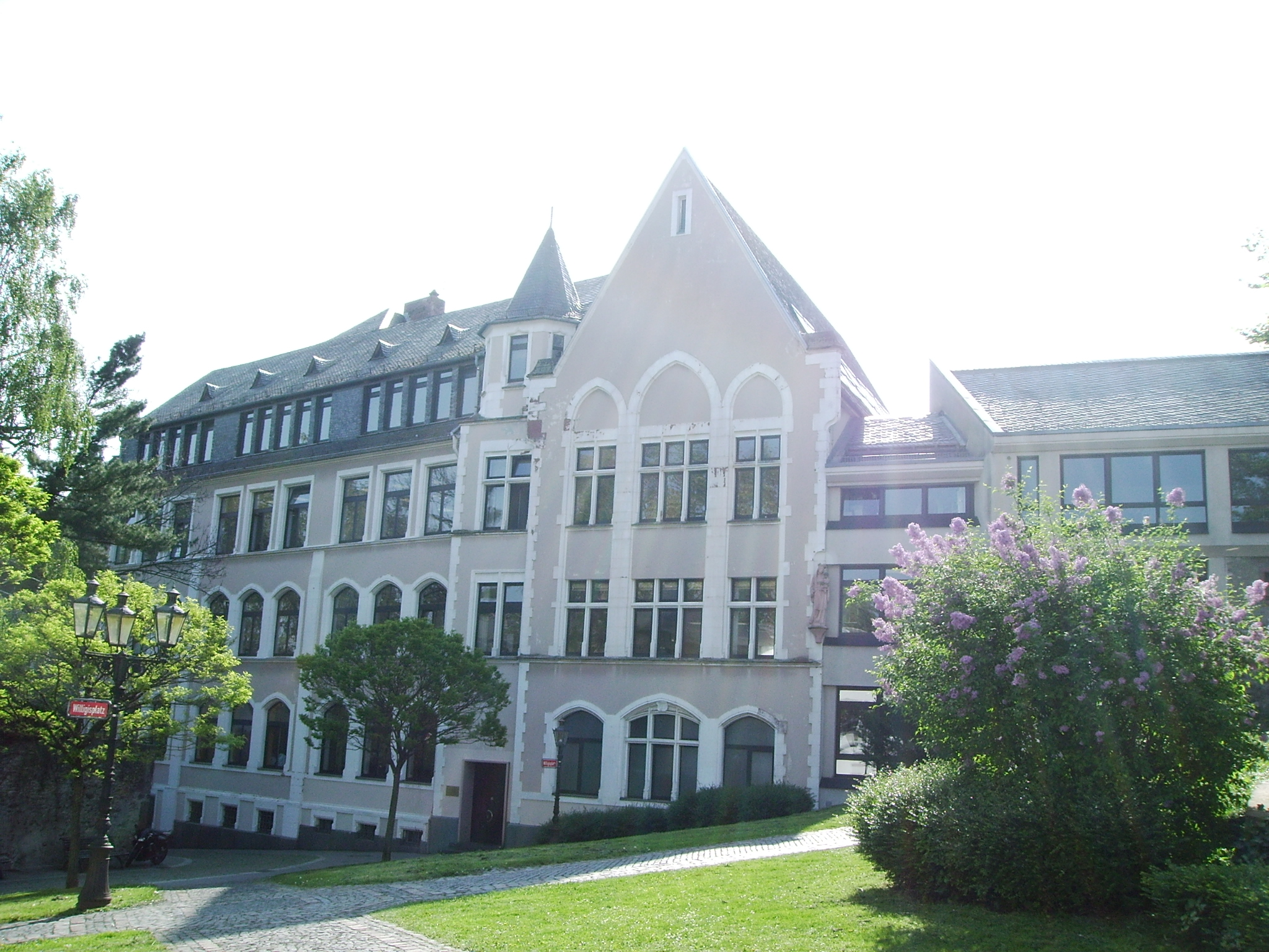 Willigis-Gymnasium, Mainz, Germany